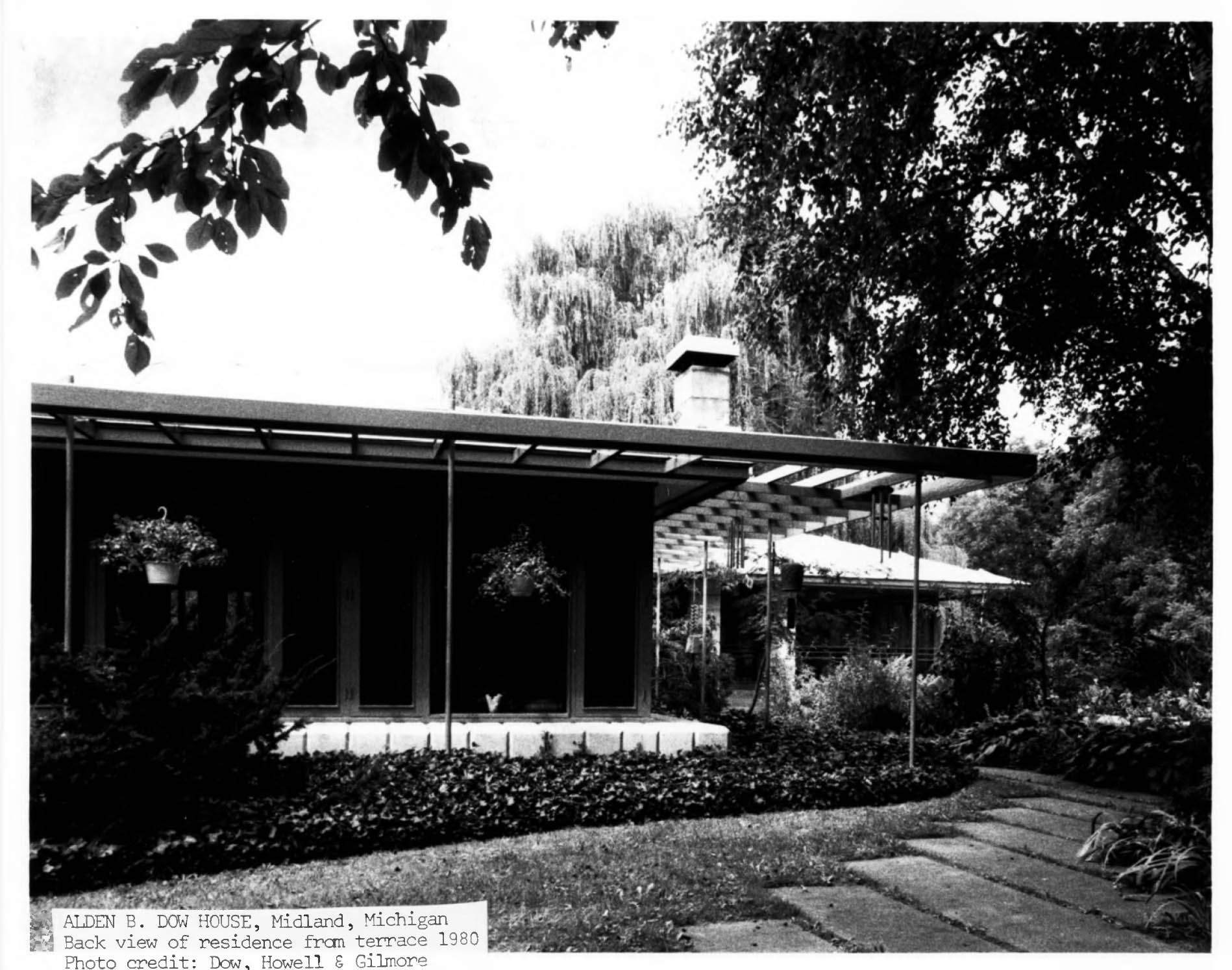 Back view of Alden B Dow House